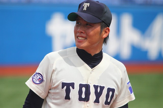 Takahiro Fujioka, pitcher of the Toyo University Baseball Club, at Meiji Jingu Stadium.